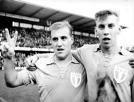 Rolf Eriksson and Bosse Larsson (MFF)